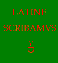 This small picture was made especially for the template "Nuntii Latine placent", lest all are forced to use Romulus and Remus, that is a sign of the "Romans" (Its "text" simply reads: "Let's write in Latin").